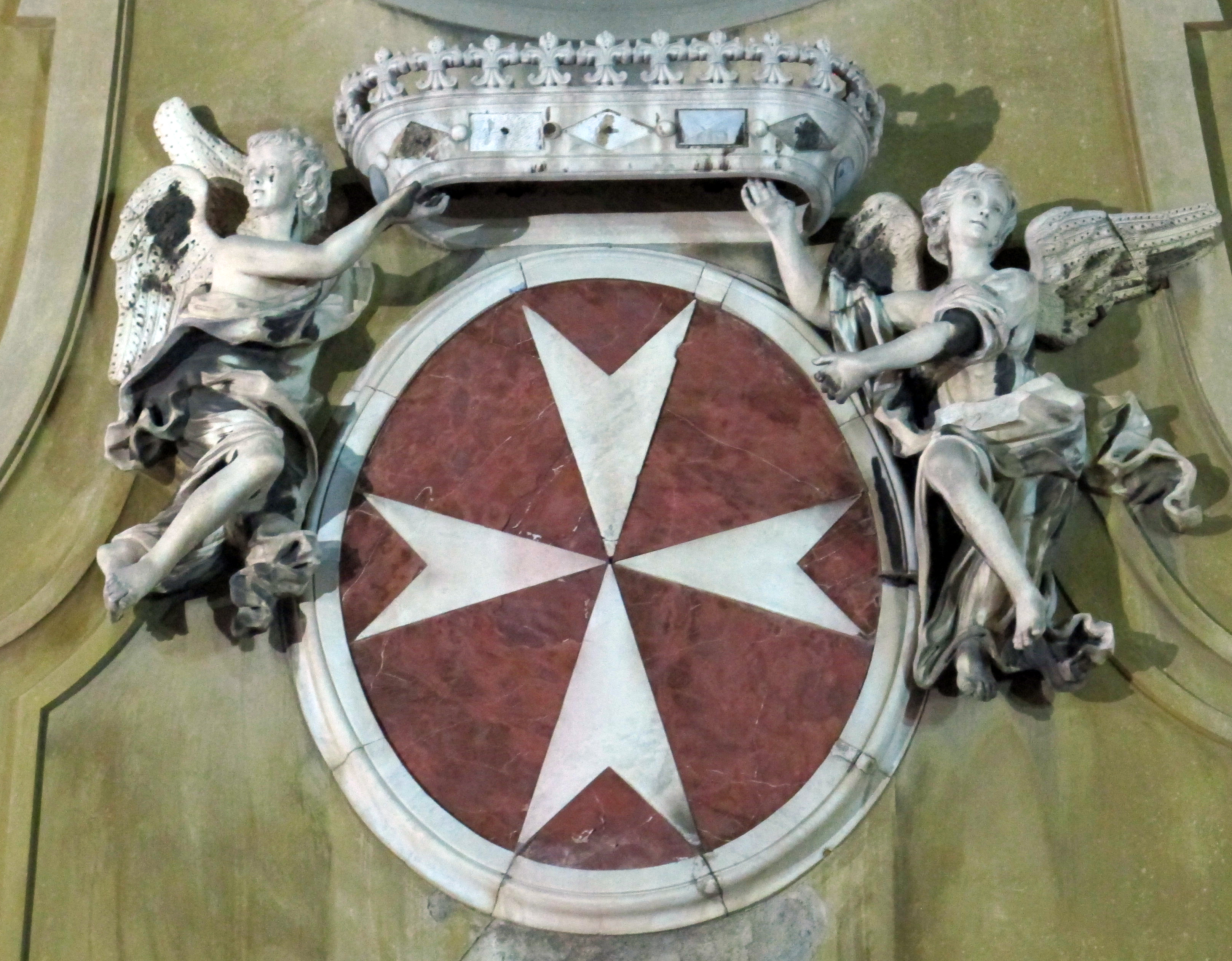 San Giovannino dei Cavalieri church in Florence, Italy Blason of Malta's chevaliers on the façade